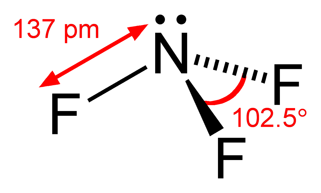 Structural formula of the nitrogen trifluoride molecule, NF3, including the N-F bond length and the F-N-F bond angle